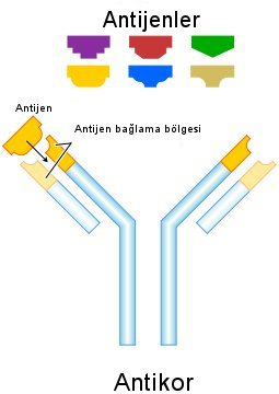 Schematic diagram of an antibody and antigens. Color scheme loosely made to match Image:Antibody scheme.svg. Light chains are in lighter blue and orange, heavy chains in darker blue and orange. This JPG graphic was created with Inkscape.